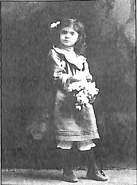 Nilkanth family of Gujarat